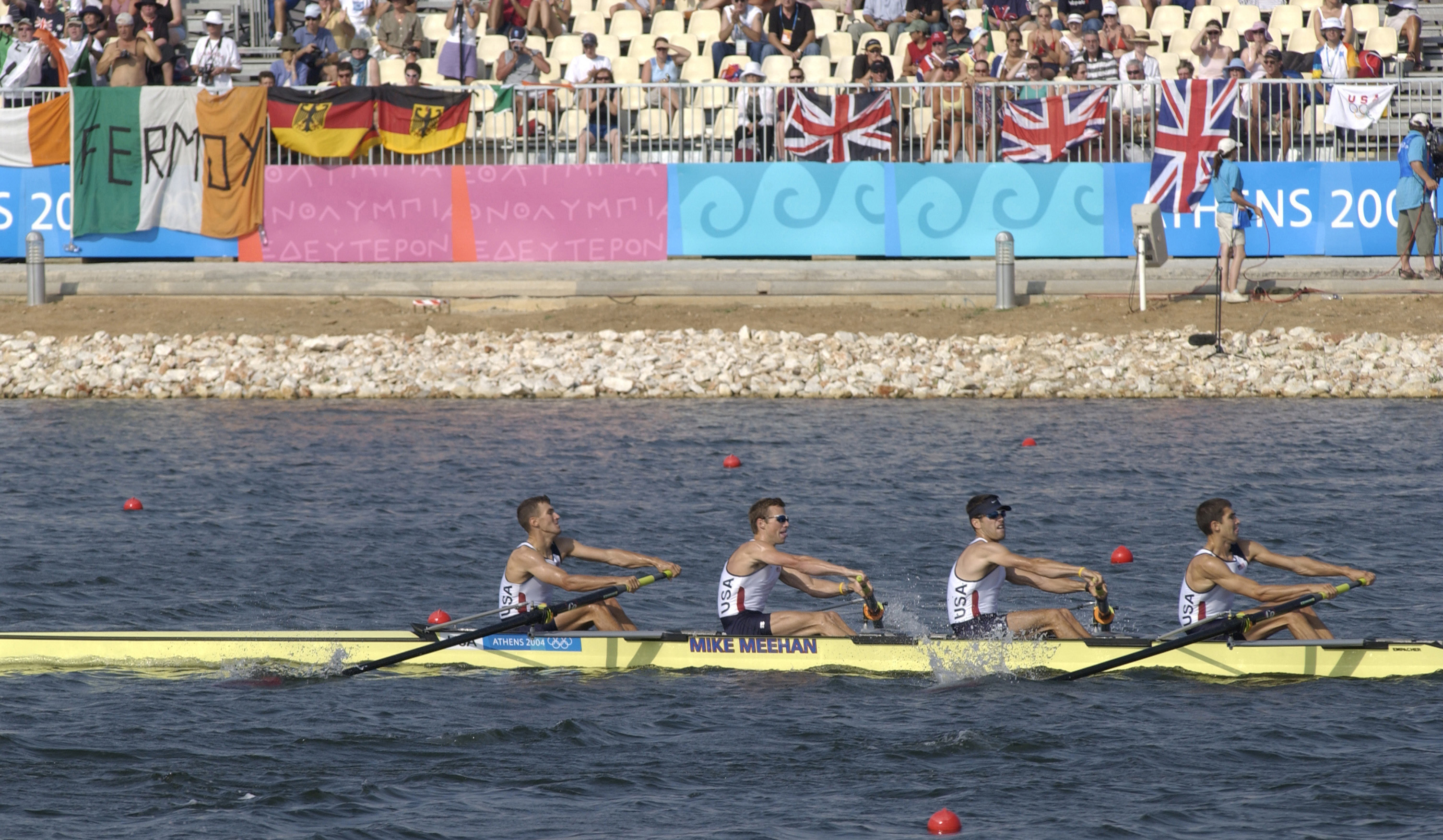 U.S. Army Capt. Matt Smith, left, World Class Athlete Program, competes in lightweight four rowing in the 2004 Olympics in Athens, Greece. Army athletes continue a proud tradition in this year's games.